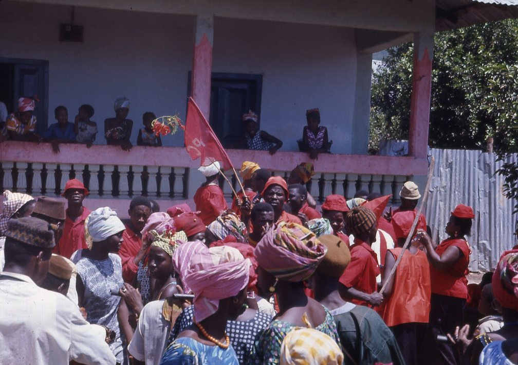 All People's Congress (APC) Political Rally in Kabala, Sierra Leone (West Africa) 1968. Red is the colour of the All People's Congress (A.P.C); they were demonstrating in front of houses belonging to people who supported the rival Sierra Leone People's Party (S.L.P.P.). Photo taken in 1968.